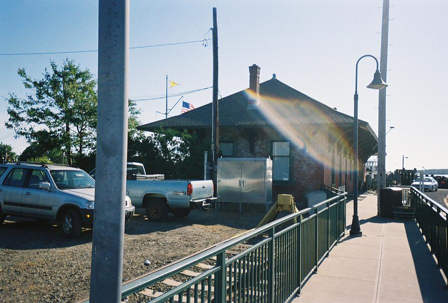 Photograph of Old Greenport Station taken by me from the view of the current platform on July 1, 2007.